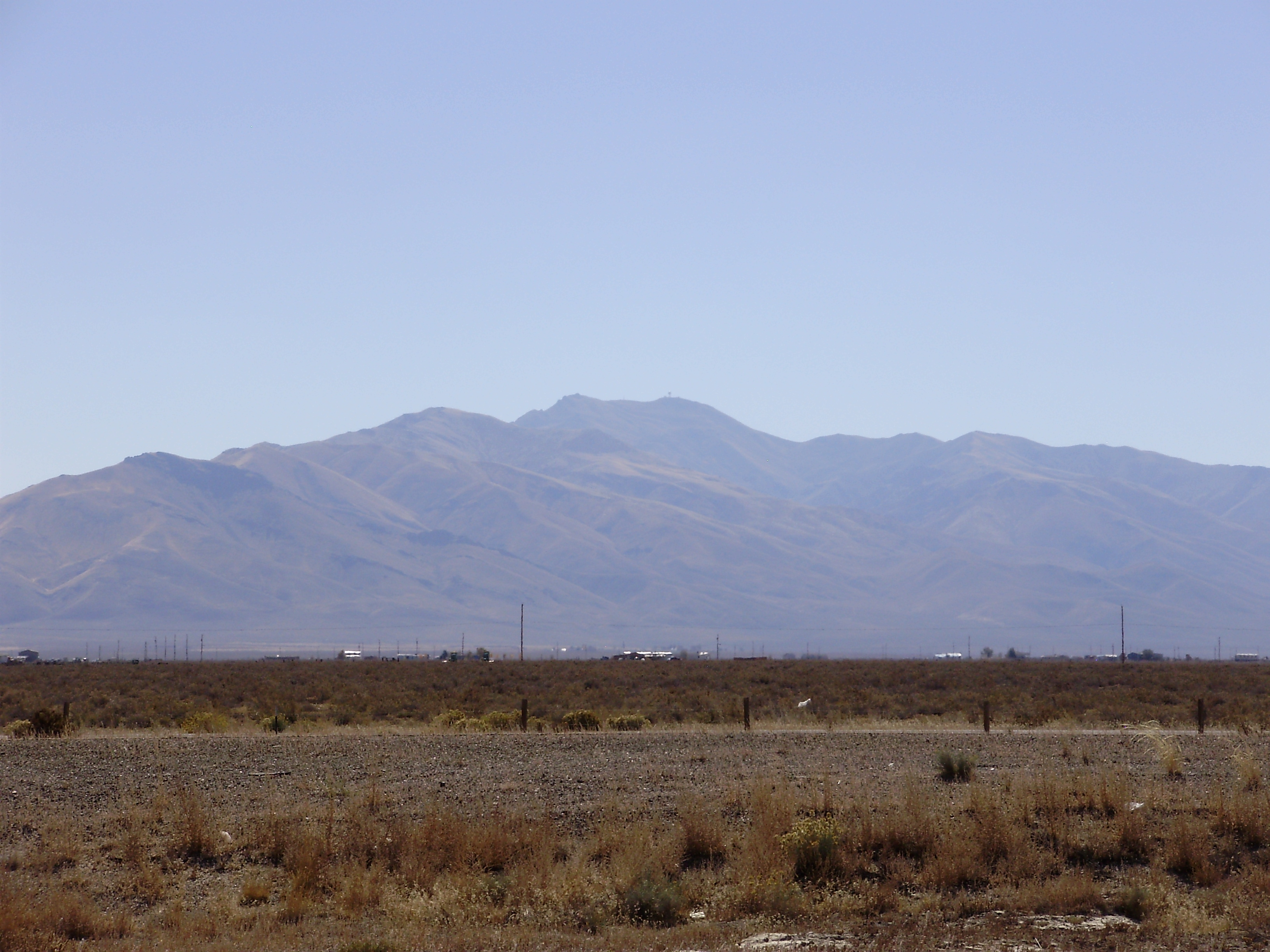 View of Mount Lewis from Interstate 80 around milepost 238 near Battle Mountain, Nevada